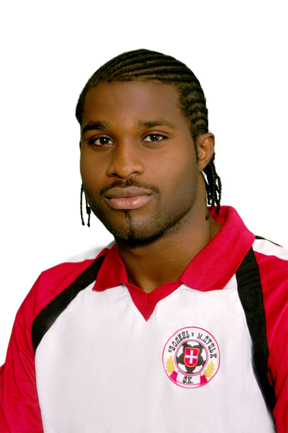 Michael Alozi, forward of FC Volyn Lutsk